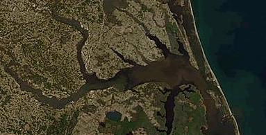 NASA photo, from Cropped to show NC's Albemarle Sound.